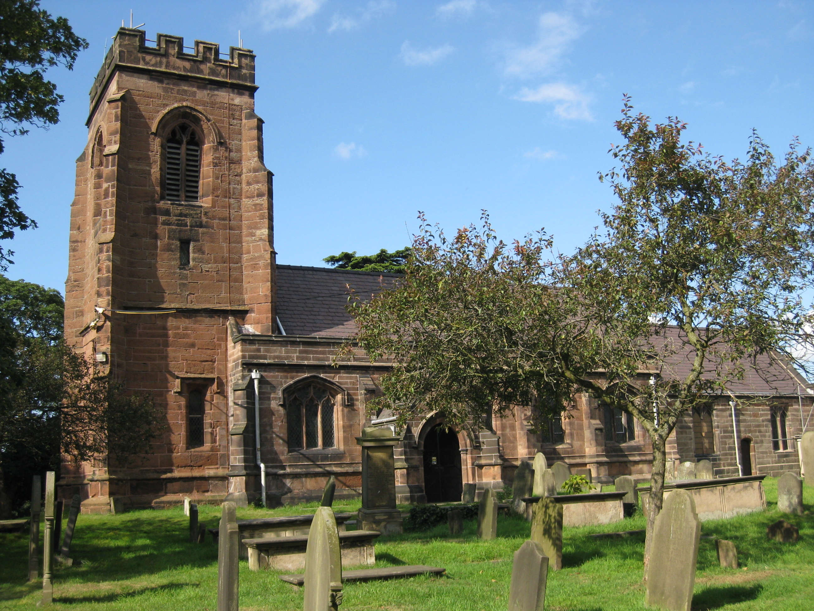 Church of St James the Great, Ince, Cheshire, viewed from the southwest, over the graveyard.